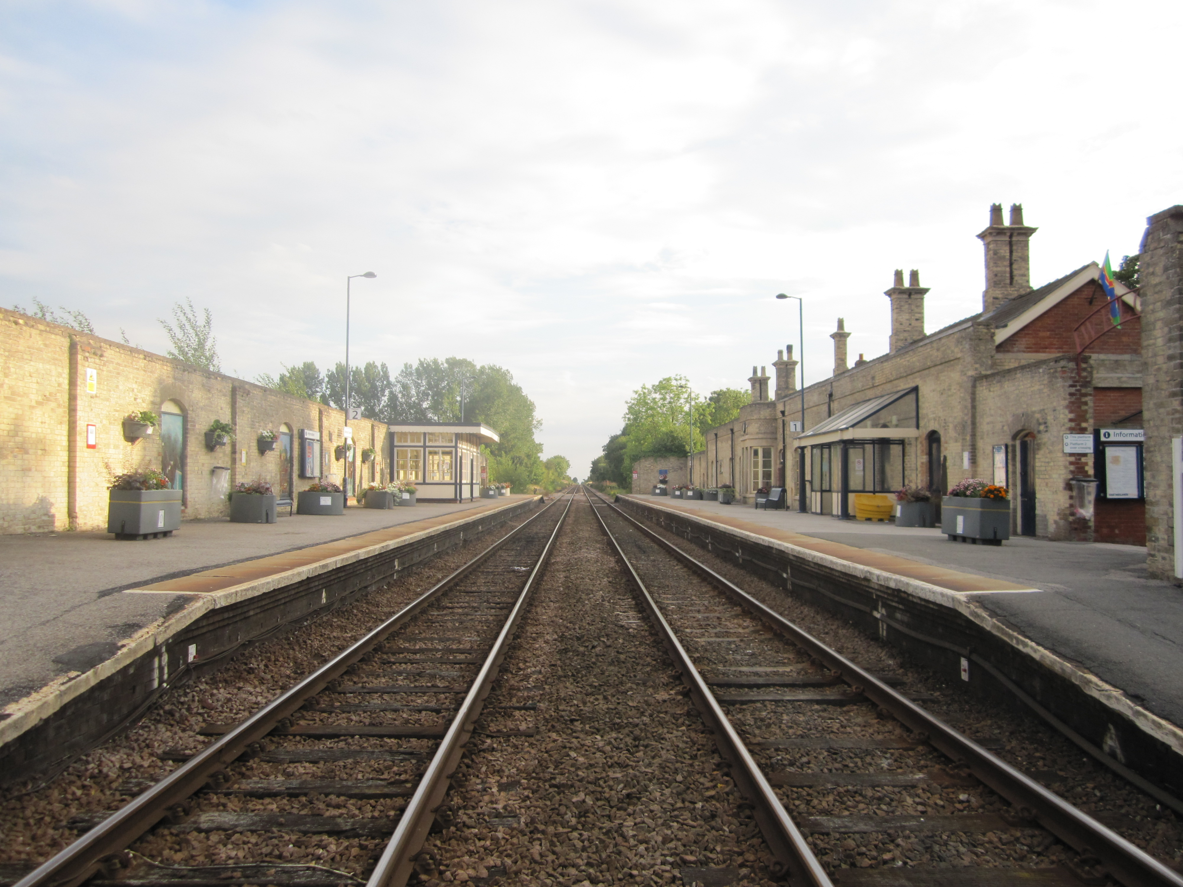 Market Rasen Station, Up direction. Taken on 19th August 2011.